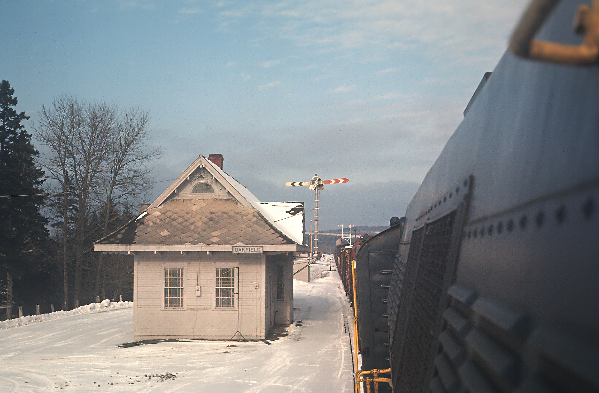 On February 6, 1970 Roger Puta rode in the cab of Bangor & Aroostook BL2 51 as it powered Train First 58. Former station at Oakfield, ME.